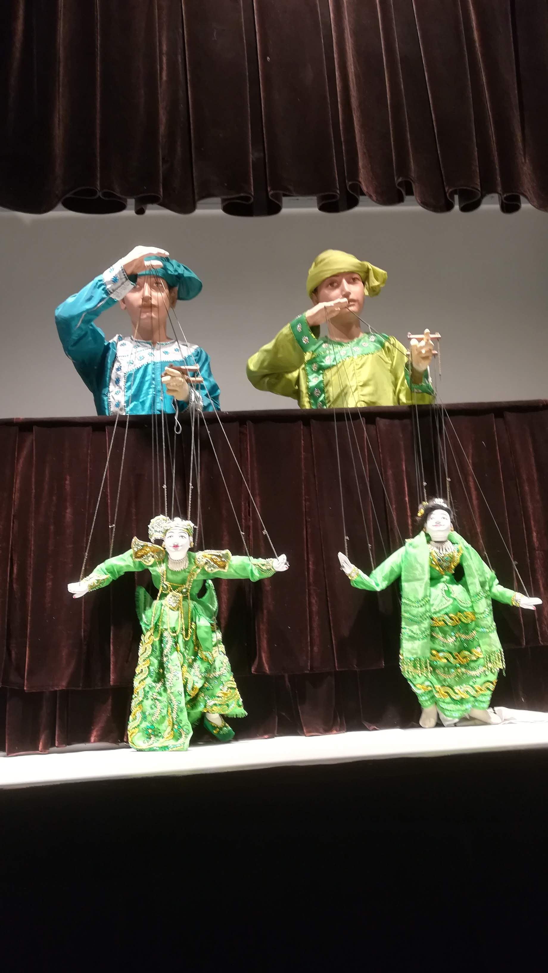 Dummies of puppeteers of Burmese marionette theatre in National Museum Naypyitaw, Myanmar